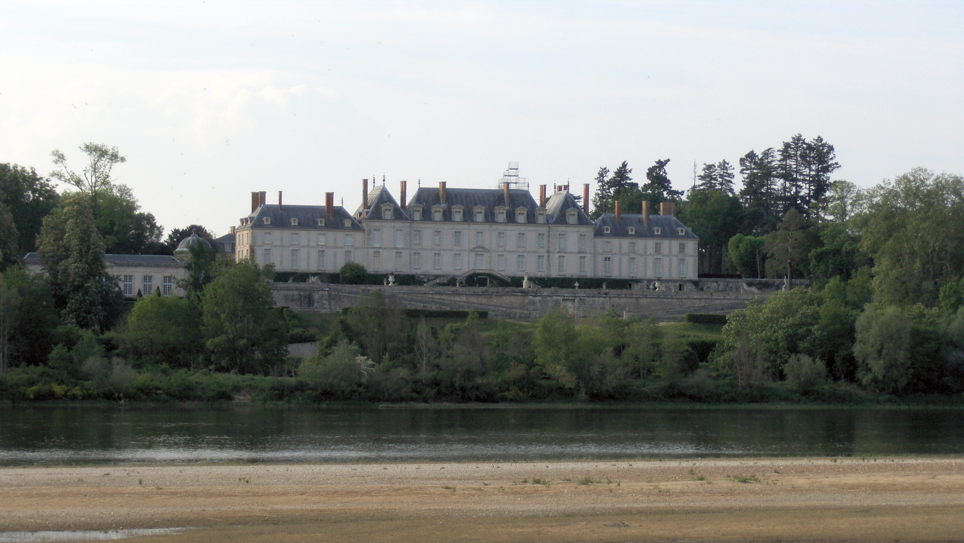 The château de Menars